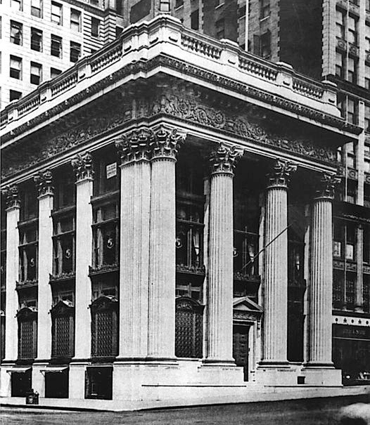 The headquarters of the Knickerbocker Trust Company in 1905. Across the street from the modern site of the Empire State Building.